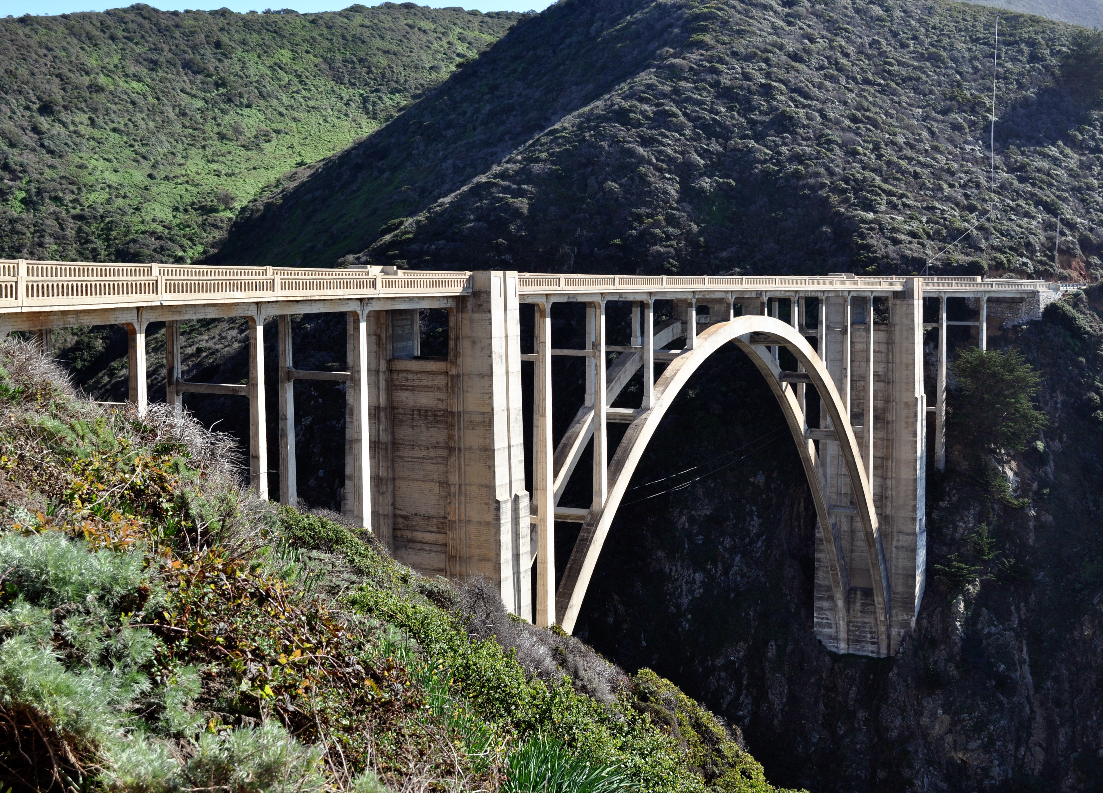 Bixby Bridge, built in 1932, from the overlook that is on the ocean side of Highway 1.